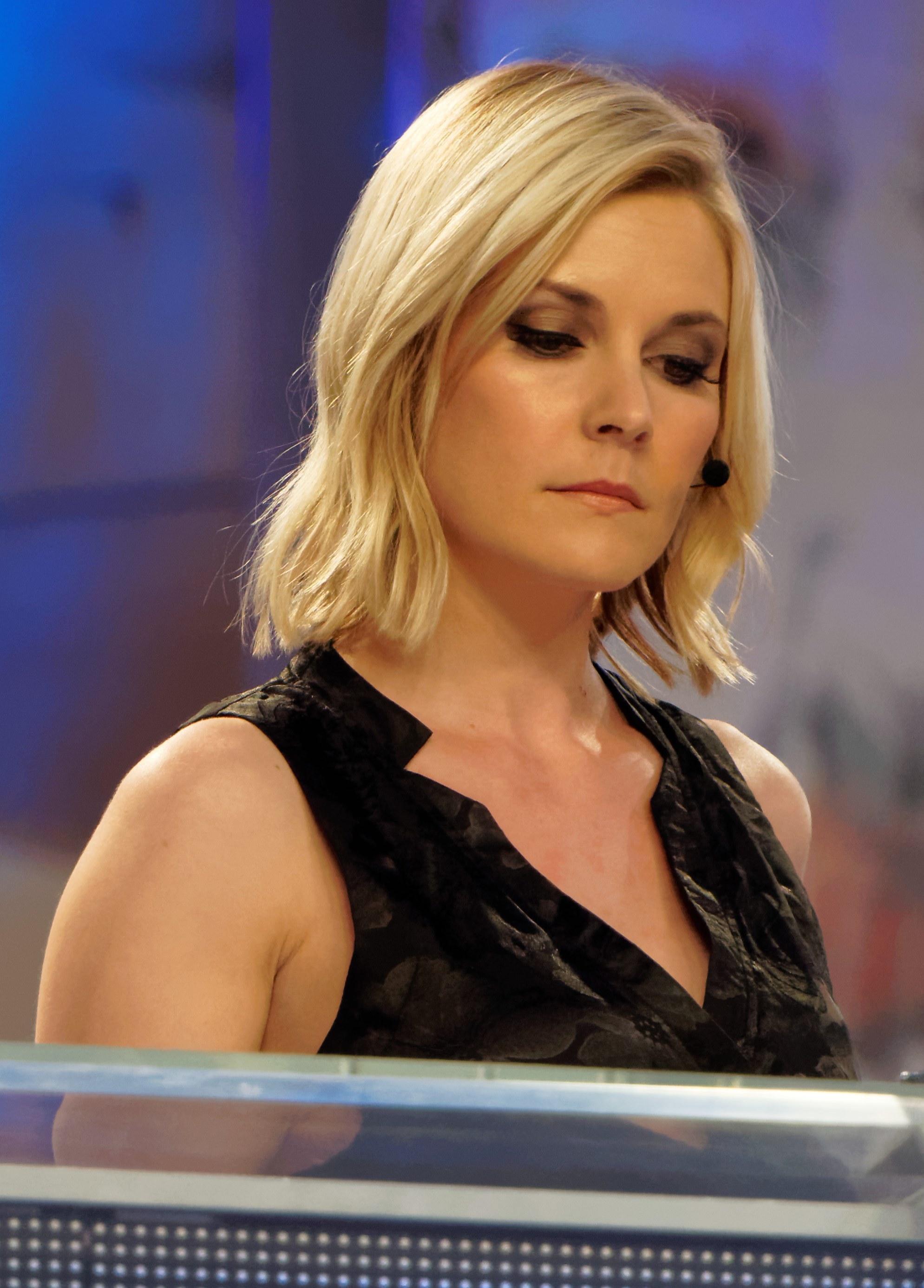 Renee Young at WrestleMania 31 Axxess in San Jose, California in March 2015.